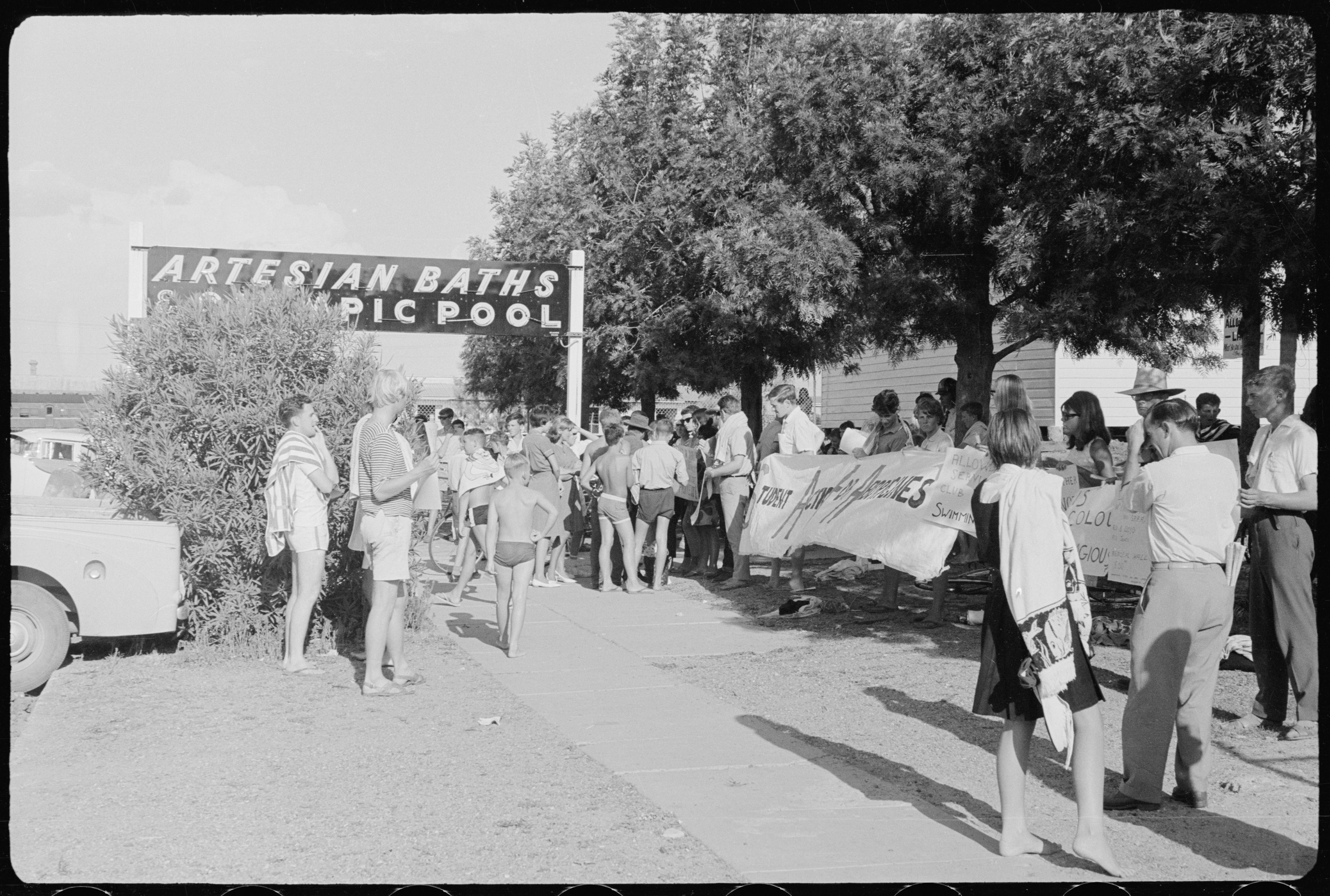 Can you help identify the people and places documented in this photograph? Call Number:ON 161/222 Format: Photograph 35 mm Find more detailed information about this photograph: Search for more great images in the State Library's collections: .au/search/SimpleSearch.aspx For more information about Indigenous Services at the State Library of NSW: Protocols for Libraries and Archives. Further information on the ATSILIRN Protocols is available here: .au/protocols.php#_=_ From the collection of the State Library of New South Wales